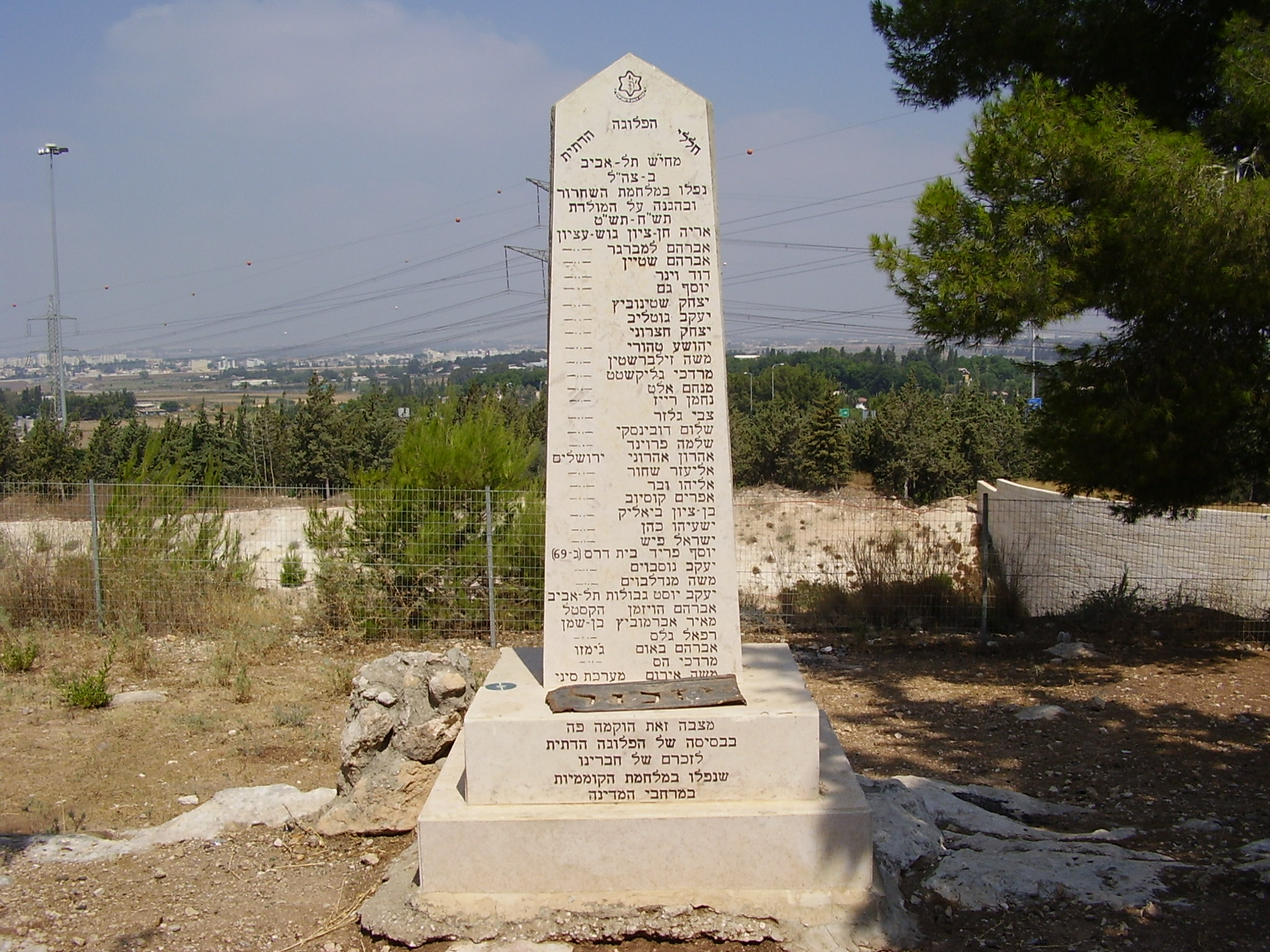 independence war memorial in modi\'in forest